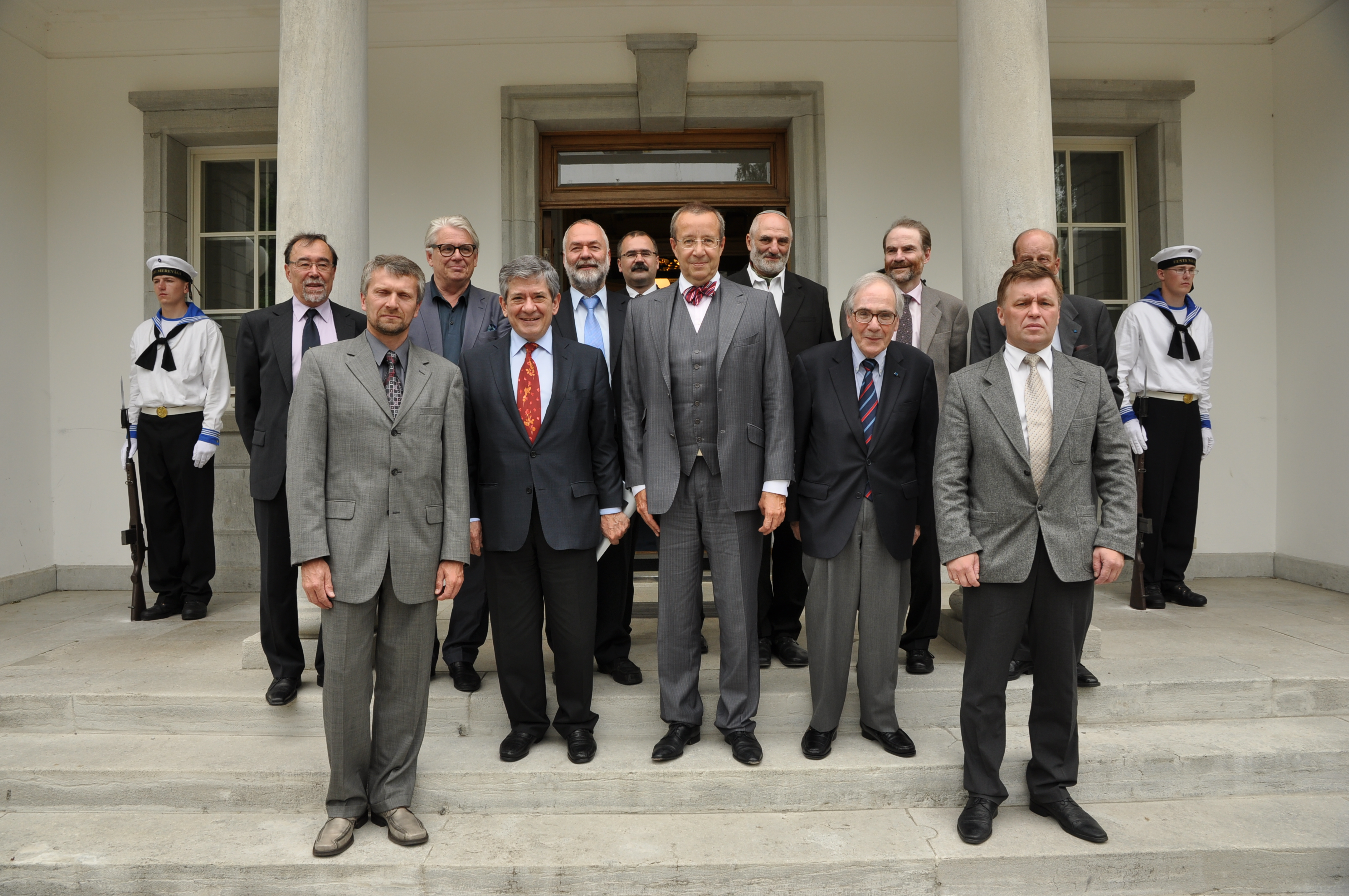 International Learned Committee of Experts of Estonian Institute of Historical Memory held a working meeting.